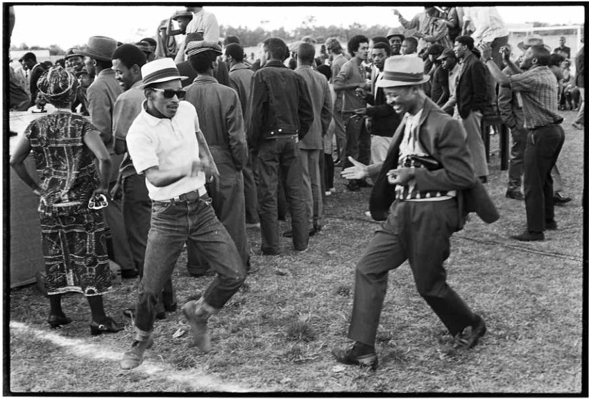 Dancing men at Langa Jazz Festival, 1968